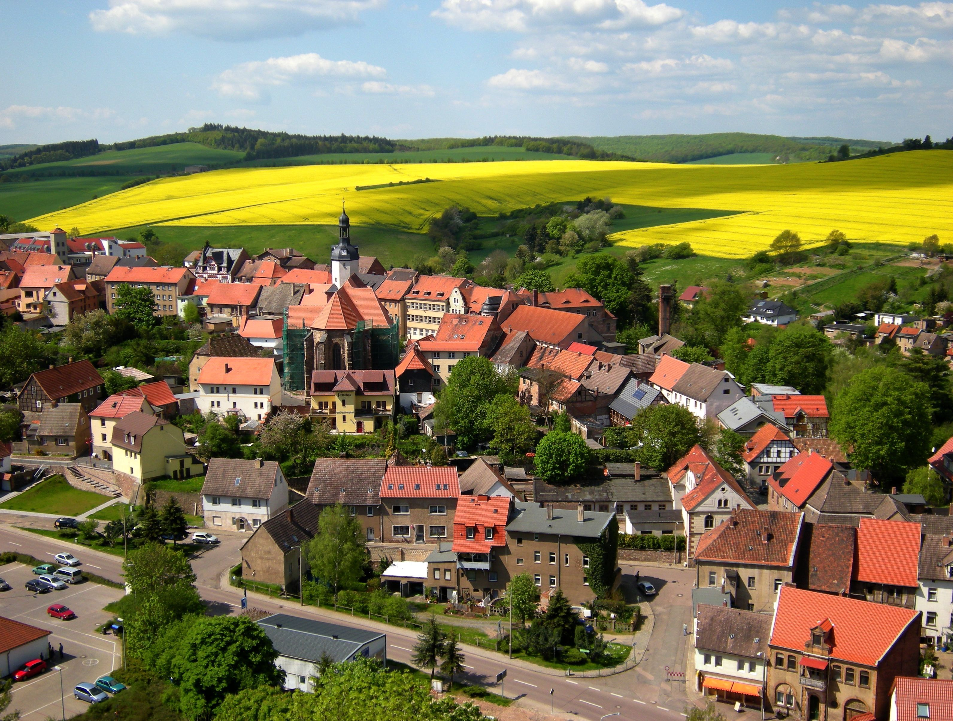 Mansfeld - View from the Castle with Rape fields.